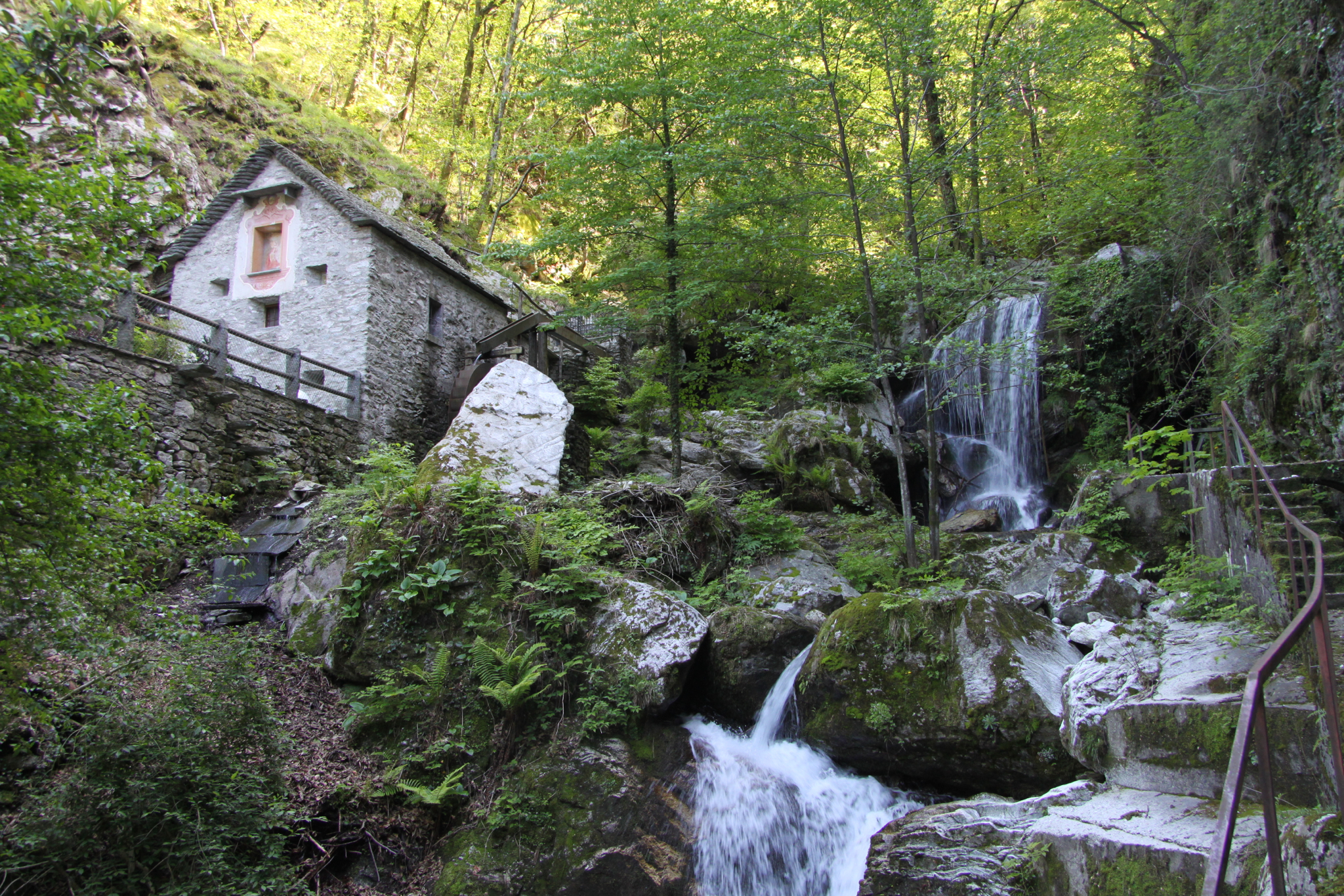 Watermill in Losone.